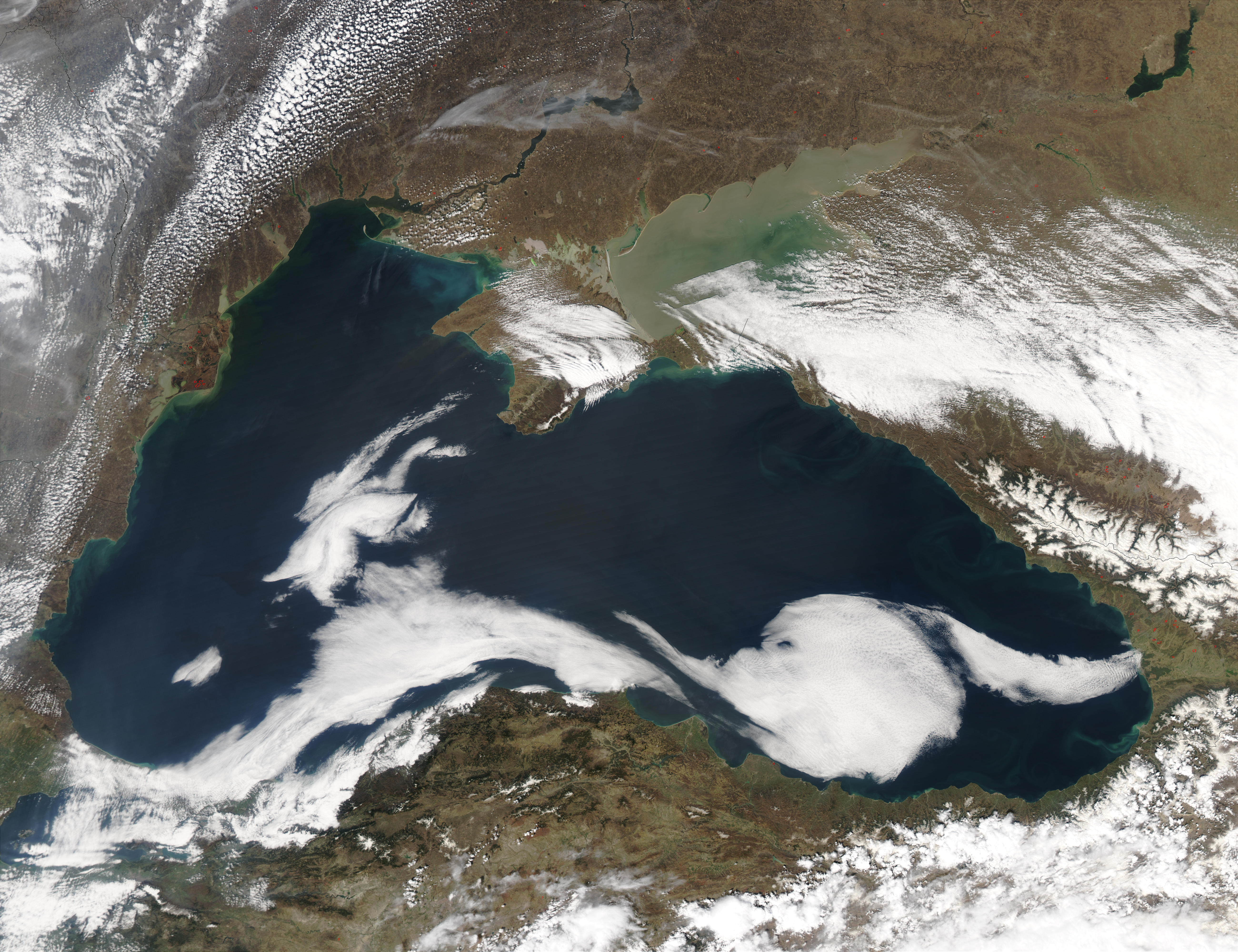 Black Sea from satellite Sensor Aqua/MODIS Dates: Datastart 2003-04-15 - Visualization Date 2003-04-25 Visible Earth v1 ID 25334